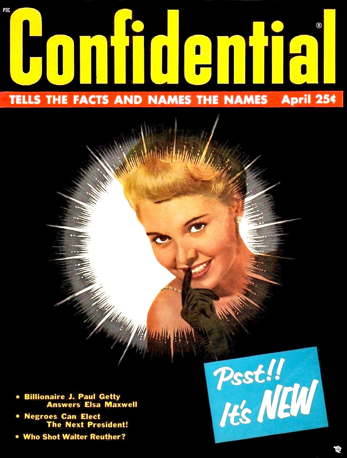 Confidential magazine cover for April 1958